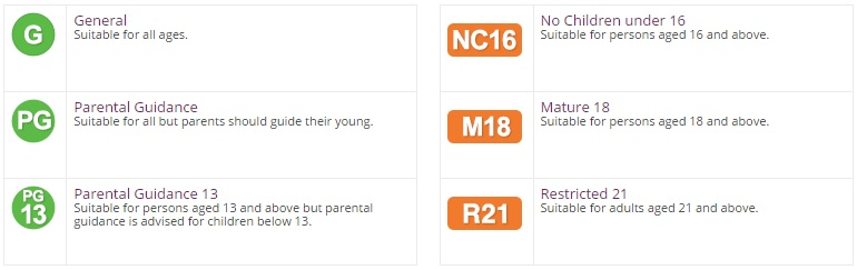 Film and video classification ratings issued by the Media Development Authority of Singapore which took effect from 15 July 2011.